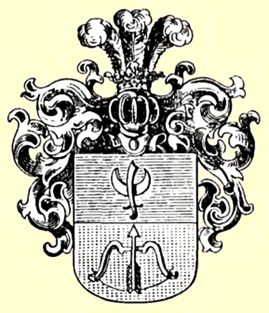 Coat of Arms of family Bartenev